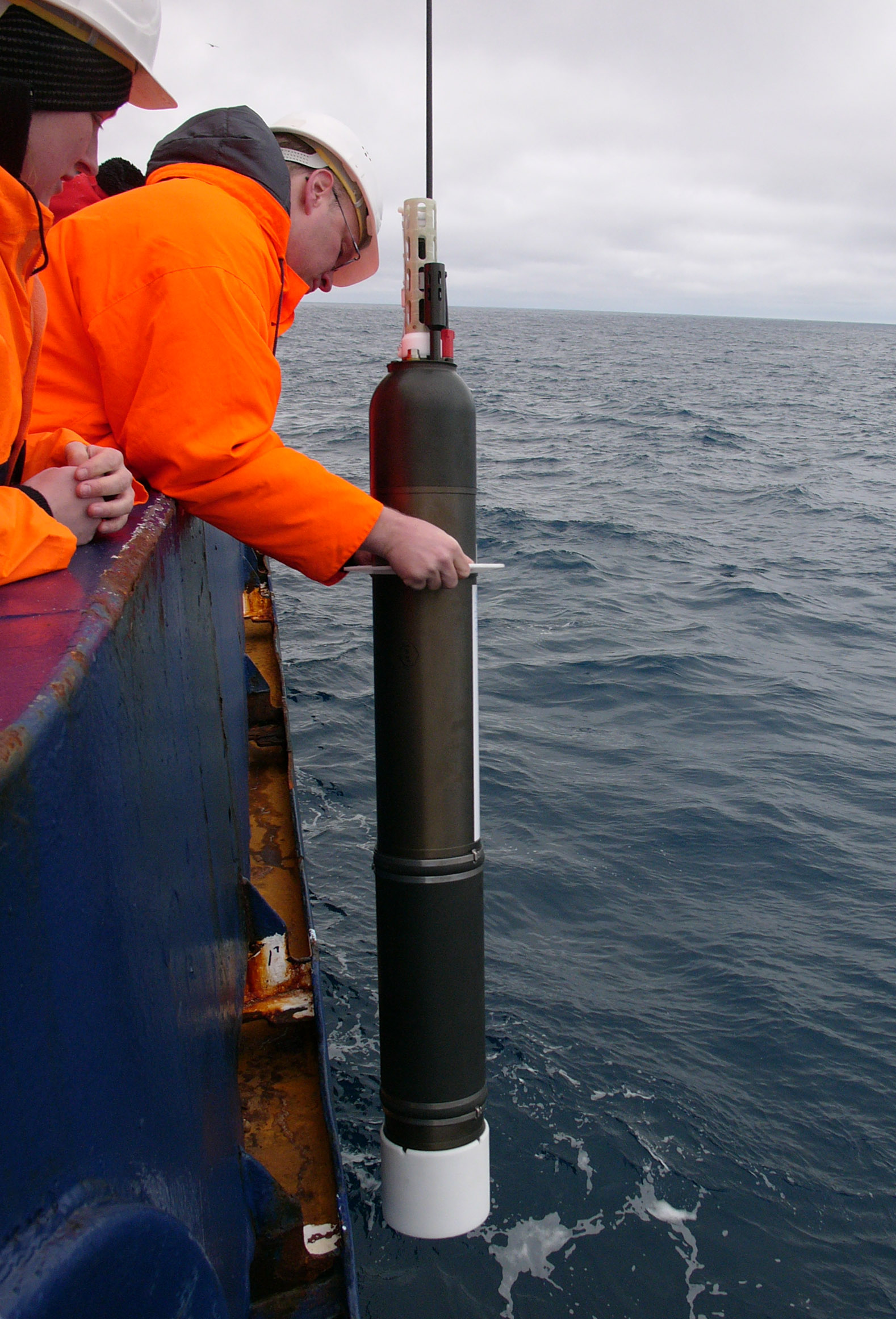 Deployment of a floater in the Southern Ocean from RV POLARSTERN (ANT-XXIII/9). Floaters are autonomous operating oceanographic devices, used to measure currents, salinity and temperature; data are transfered via satellite to the operating institute. Deployment of this floater was a German contribution to the Argo Programm.